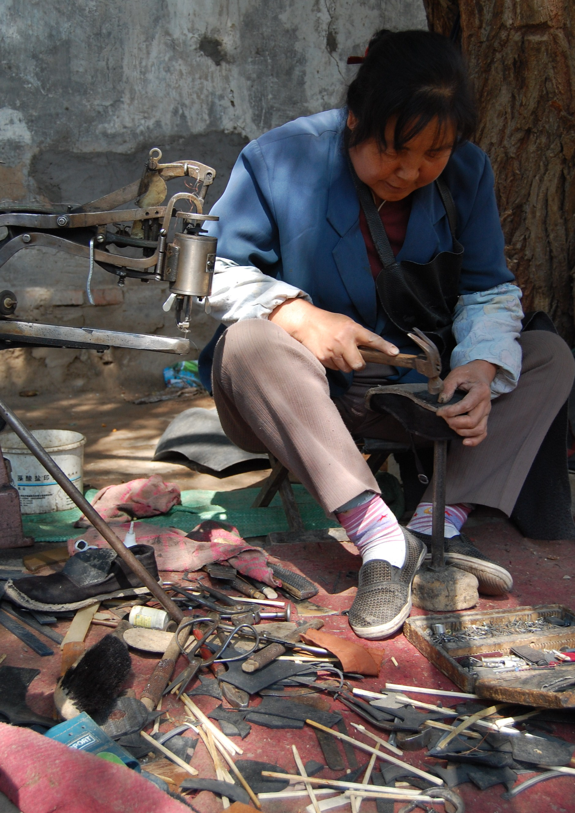 Female shoemaker in Lanzhou, Gansu province, China